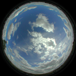 Fisheye view of sky